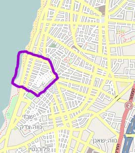 Kerem Hatemanim, Tel Aviv